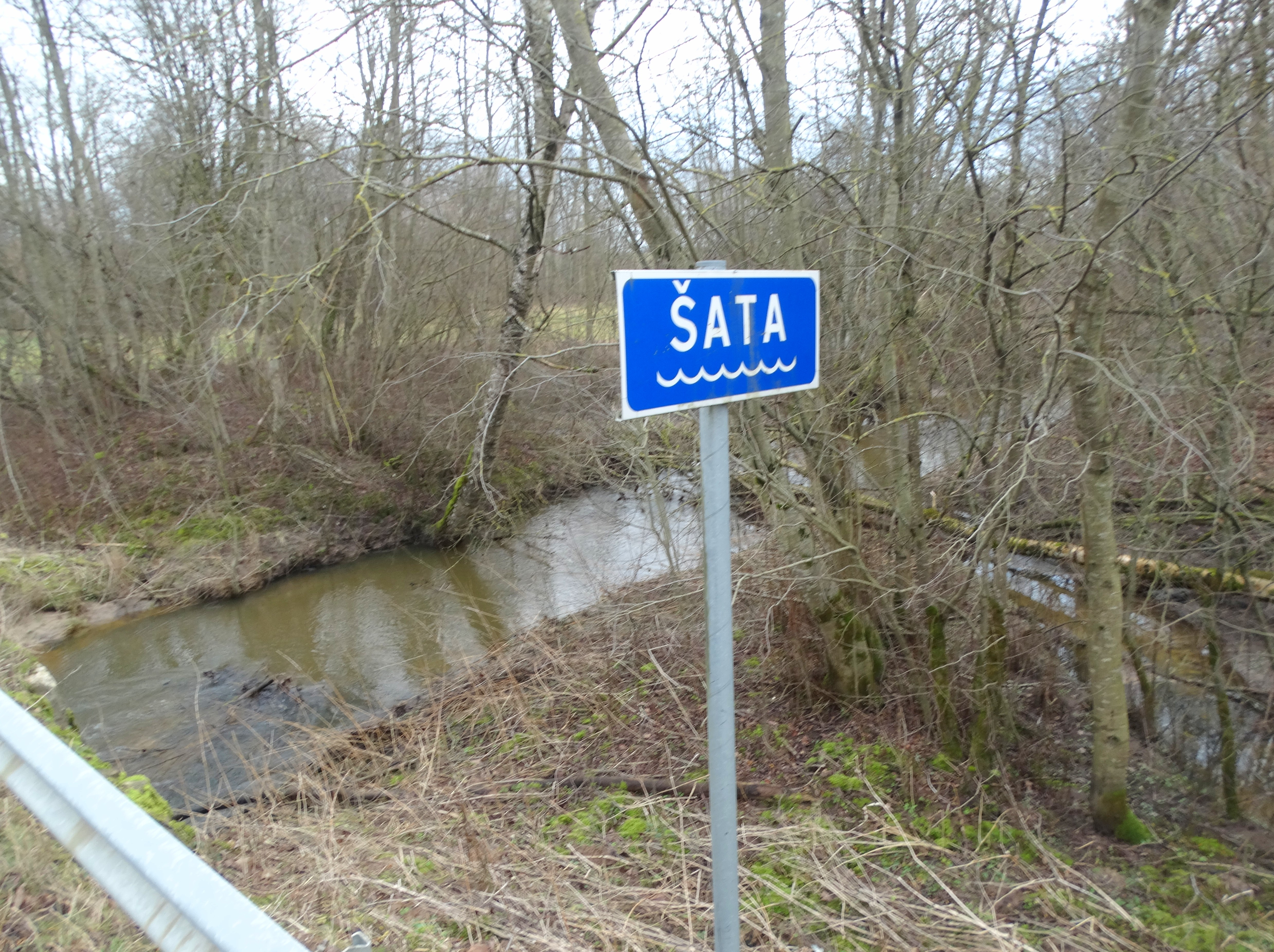 Šata River by Šatės, Skuodas District, Lithuania